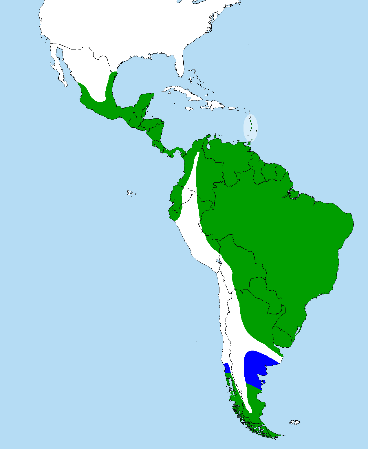 Range Map of Megaceryle torquata